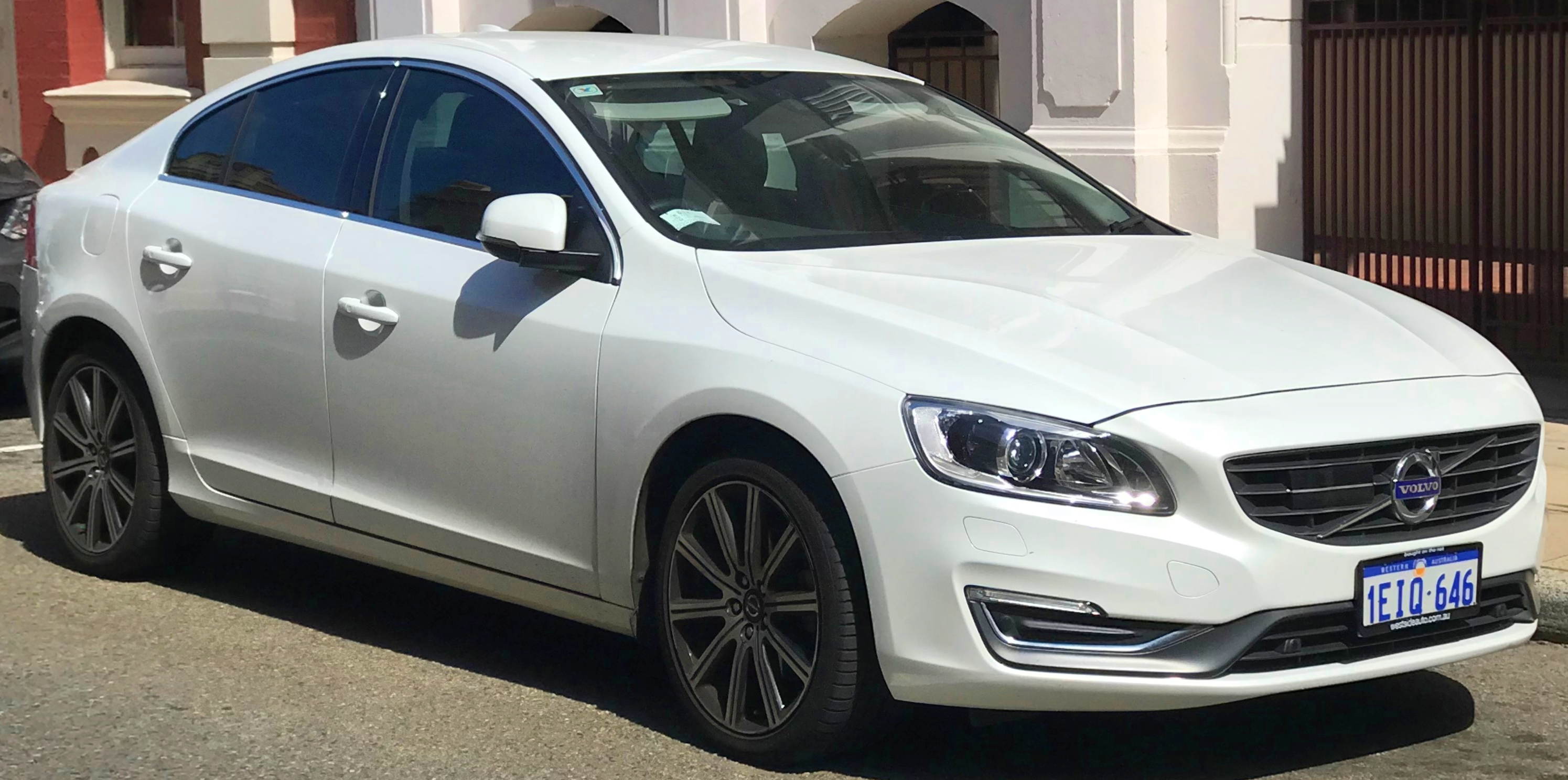 2013 Volvo S60 (MY14) T5 Luxury sedan. Photographed in Fremantle, Western Australia, Australia.